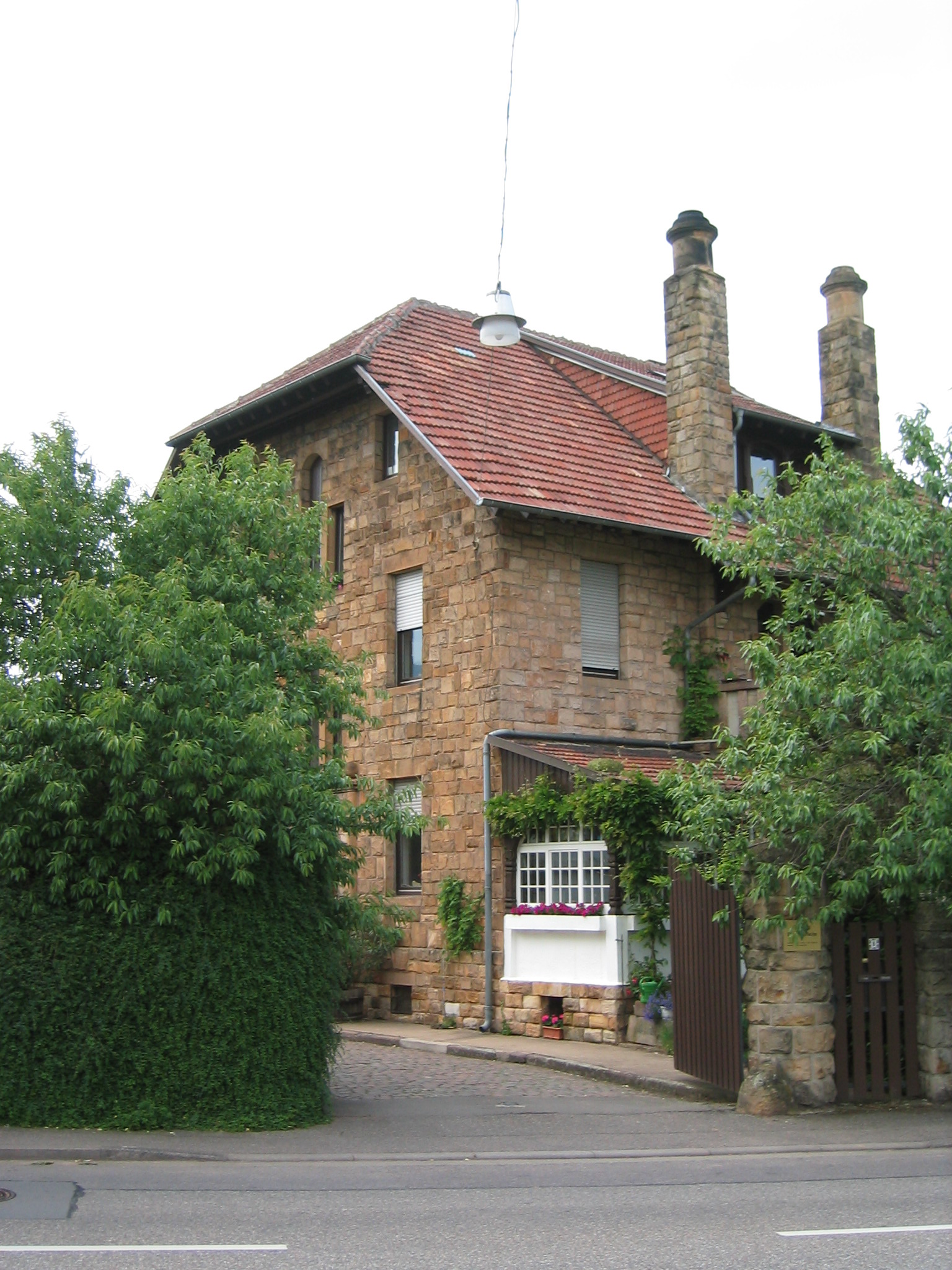 Picture of the Dr.Wehrheim winery. Main house front view.